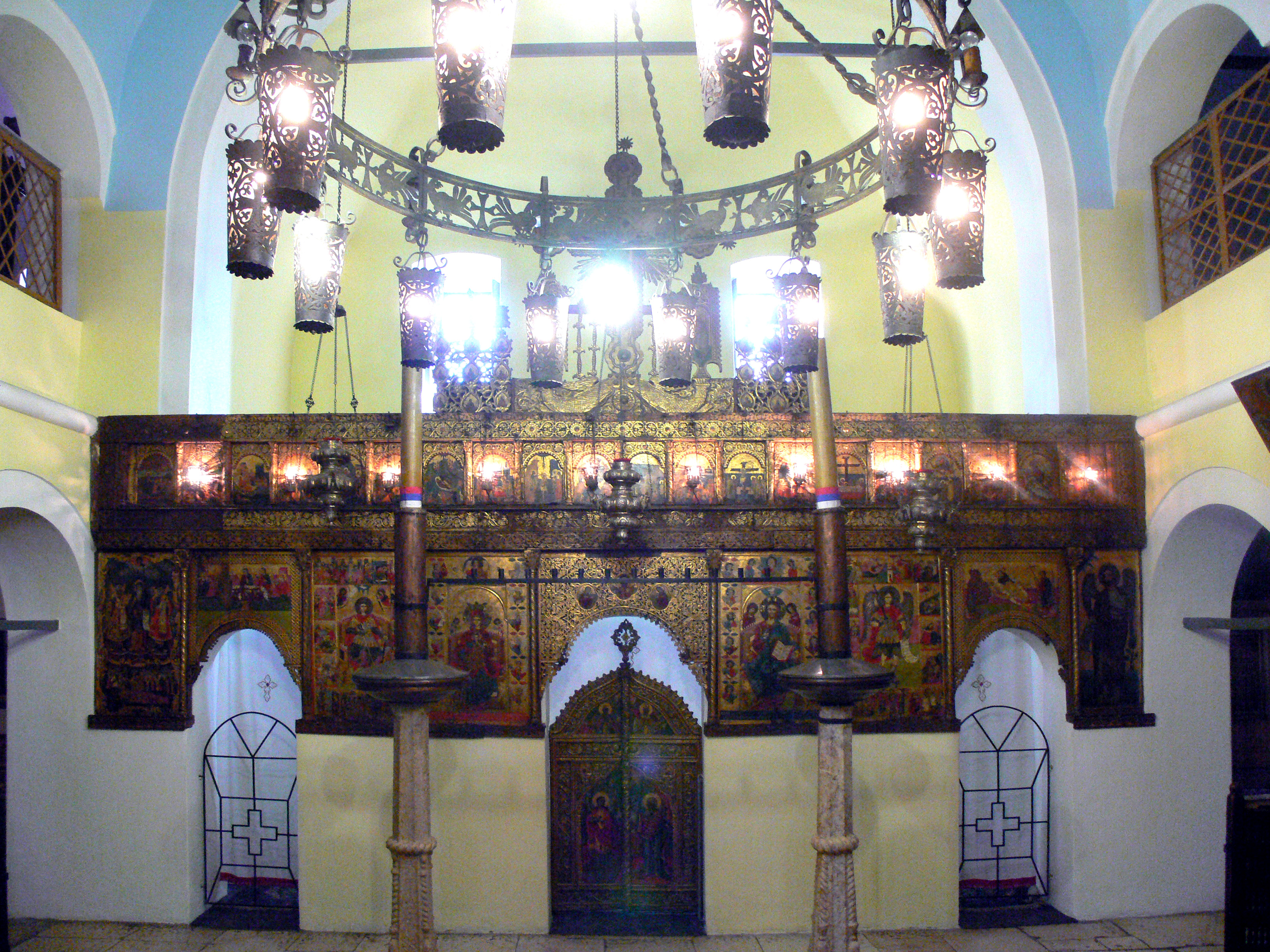 The old orthodox church in Sarajevo. The oldest sacral building in Sarajevo. Interior.